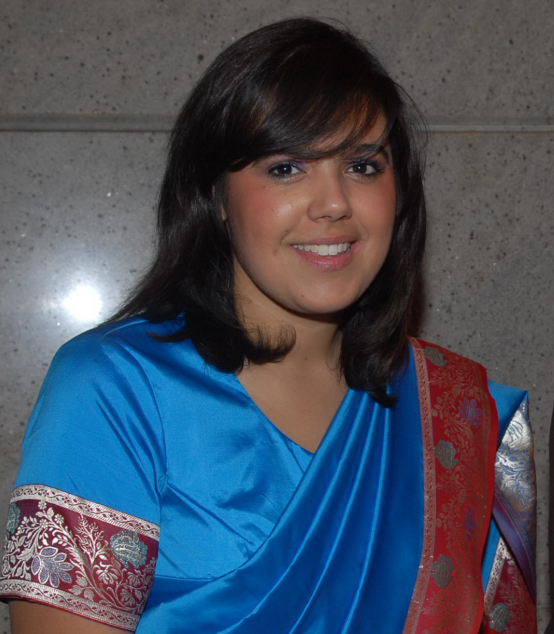 Emily Benn at the Global Woman Of The Future Awards, Mumbai